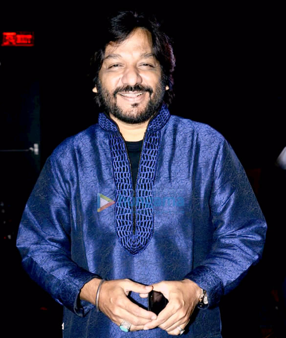 Roop Kumar Rathod at Audio release & trailer launch of 'Rang Rasiya / Colors of Passion'